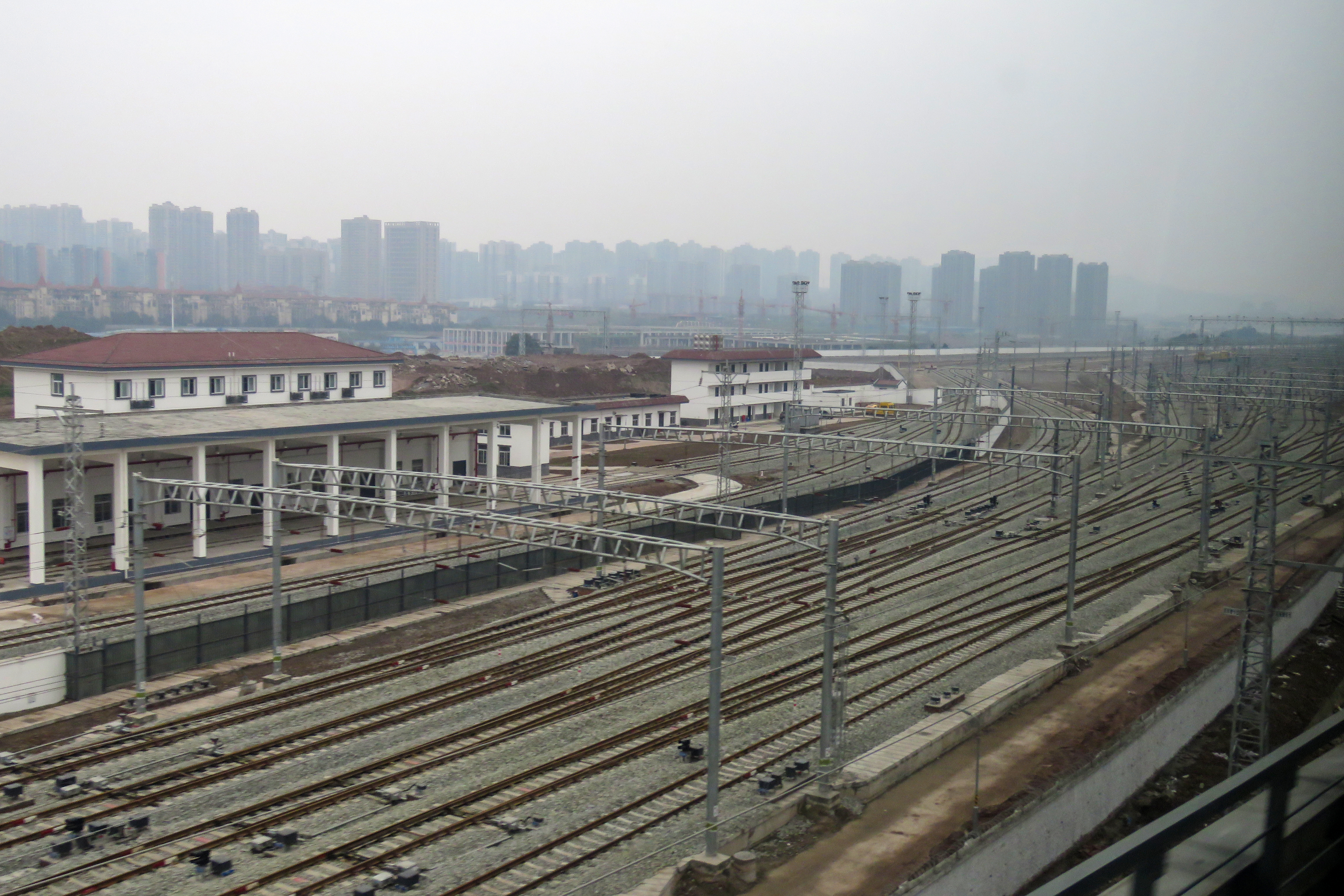 The former Chongqingxi Station, which works as an EMU depot, is serving the current Chongqingxi Station.